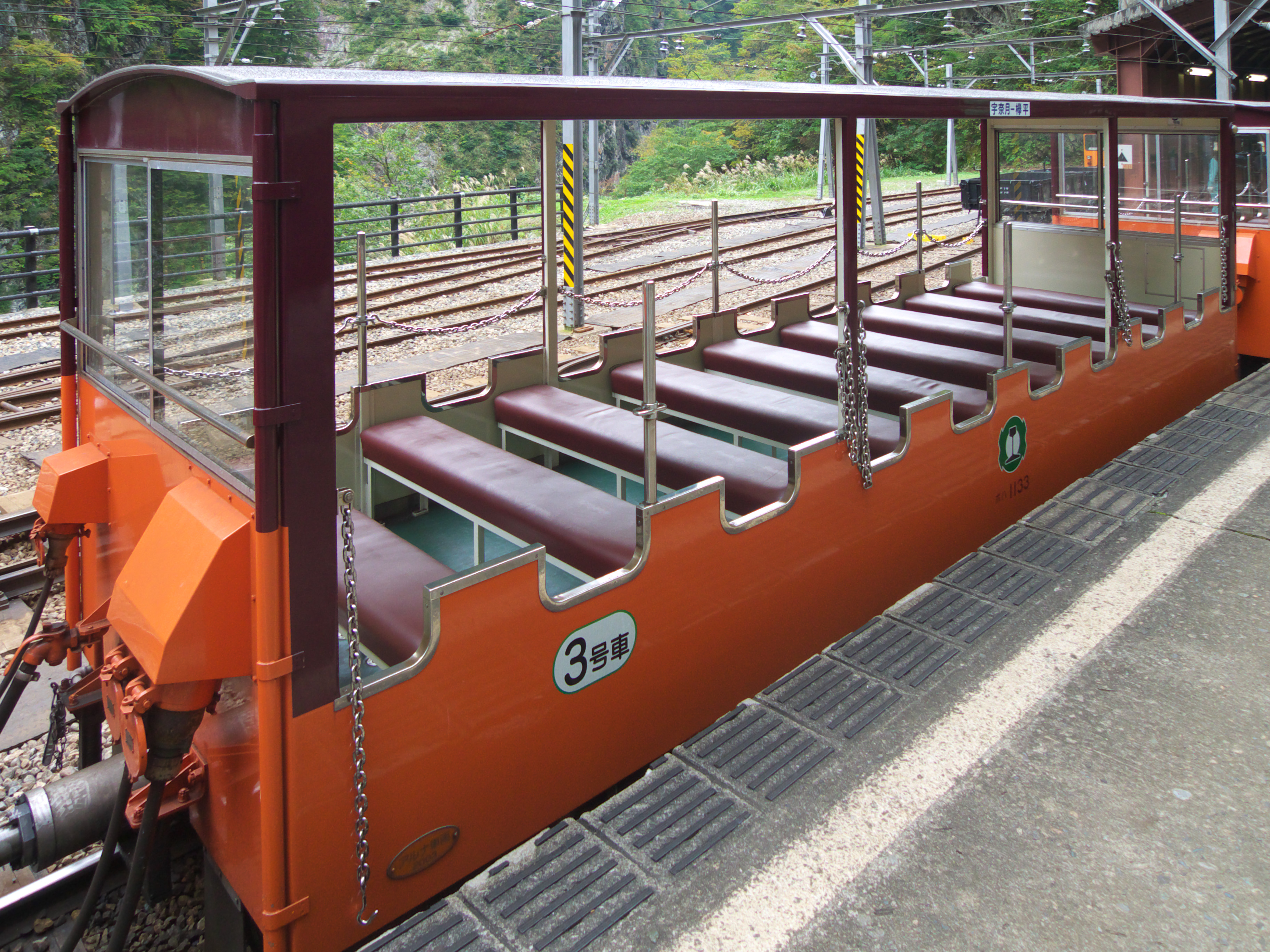 Kurobe Gorge Railway 1000 series passenger coach